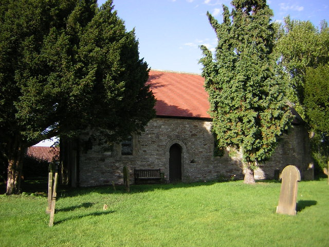 St.Paul's church, West Drayton, Notts. Tiny nave and chancel all in one. The south door is much decayed but obviously Norman with a holy water stoup to the right.